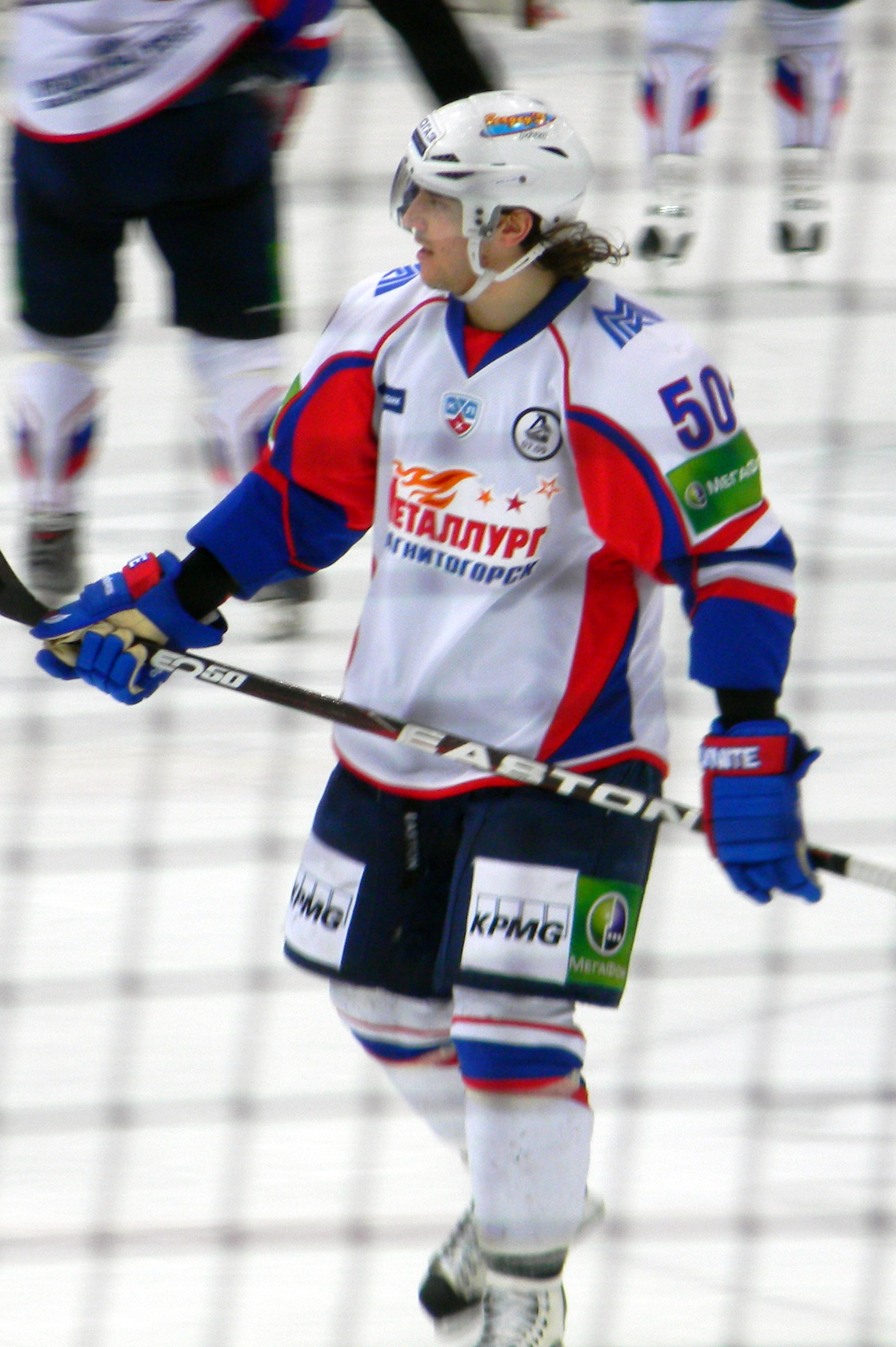 Juhamatti Aaltonen, an ice-hockey player from Metallurg Magnitogorsk in the game against Torpedo Nizhny Novgorod on 16th December, 2012